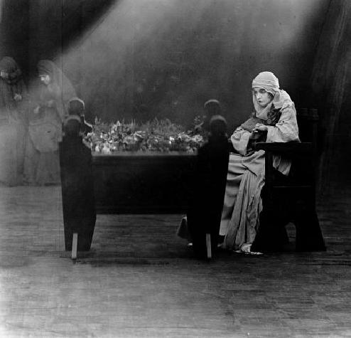 Lillian Gish in Intolerance.